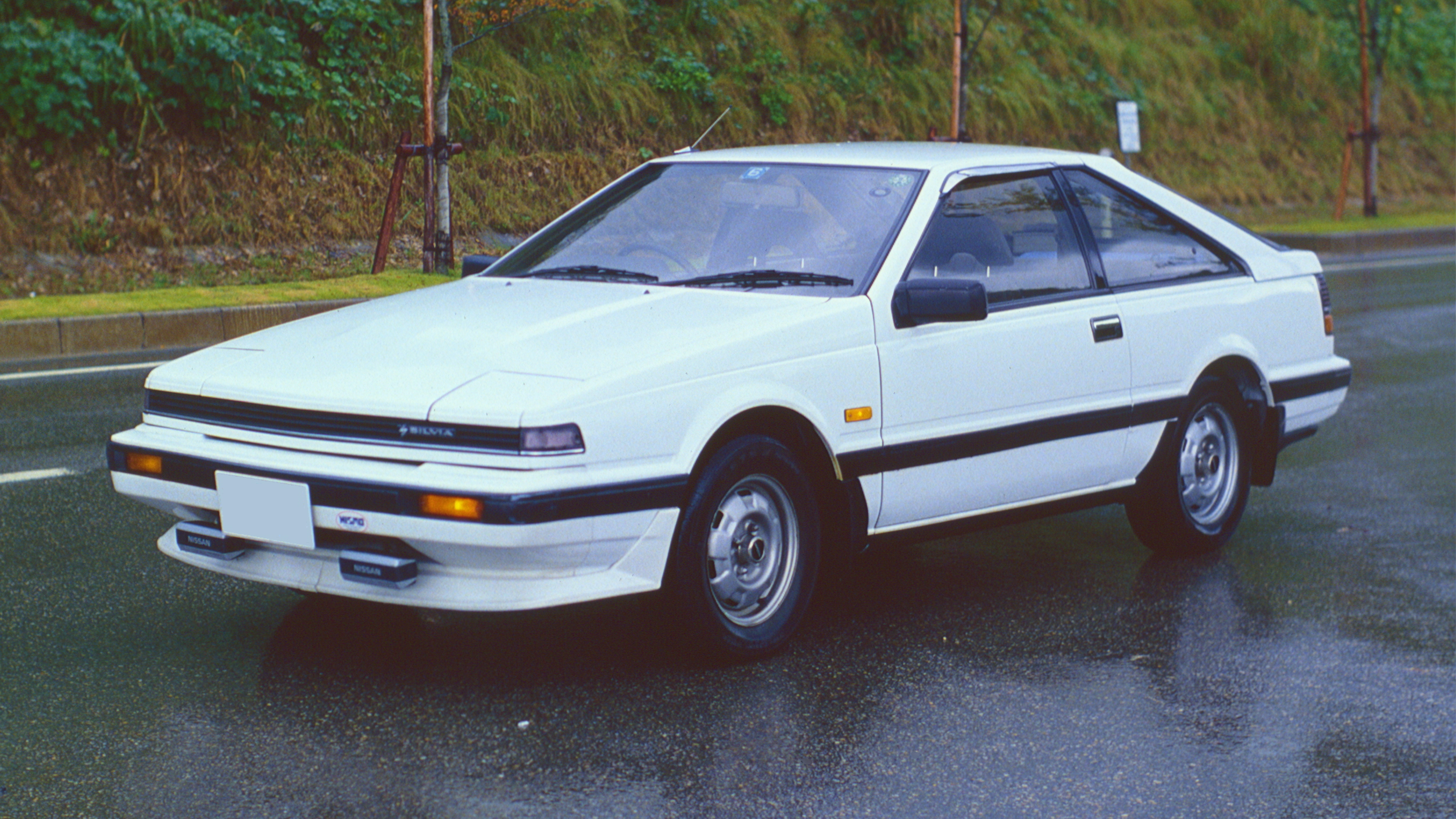 Nissan SILVIA R-X Hatchback Producted in 1986